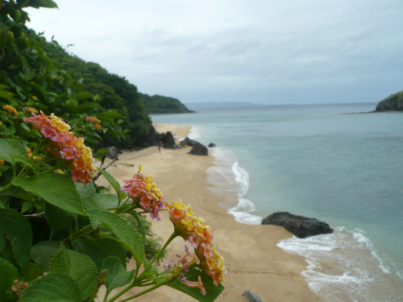 Tabunan Banton Island, Romblon, Philippines